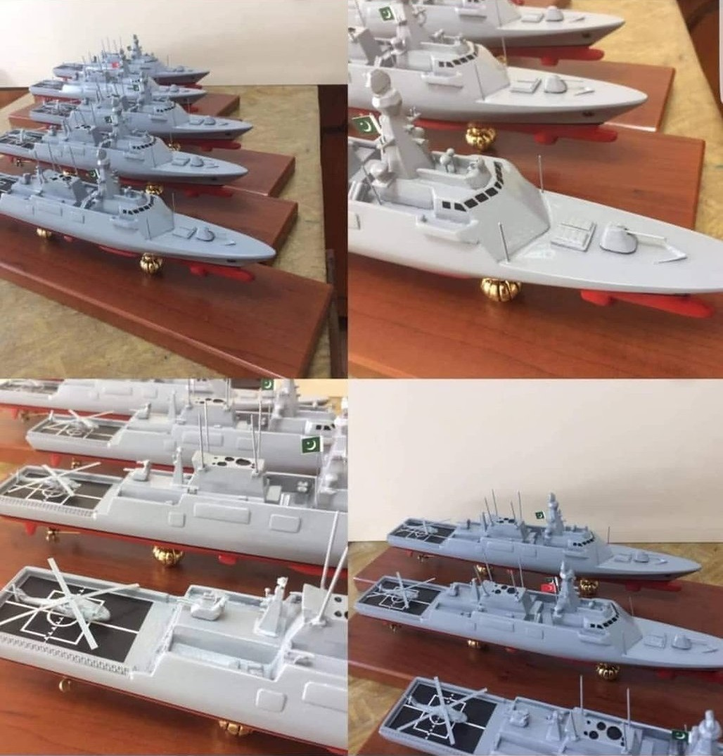 Pakistan Jinnah class scale model with 16 cell VLS for SAM